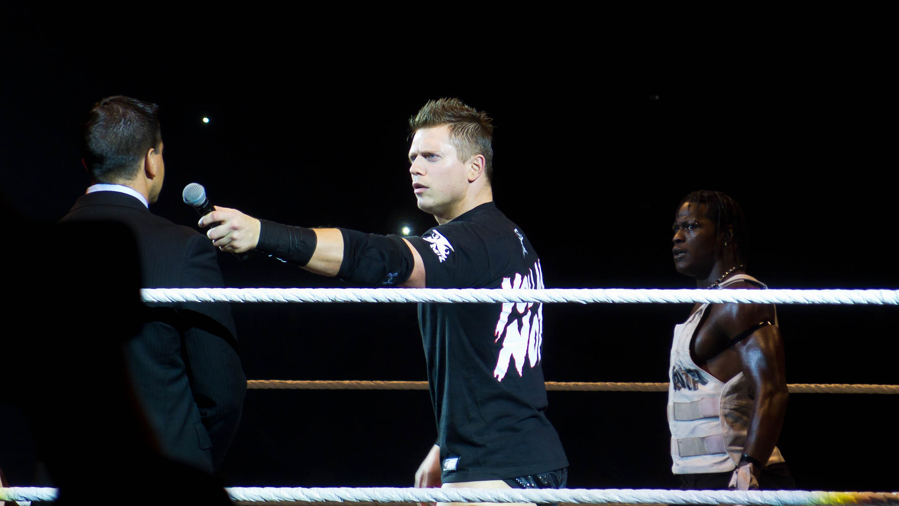 WWE Raw World Tour - London November 2011